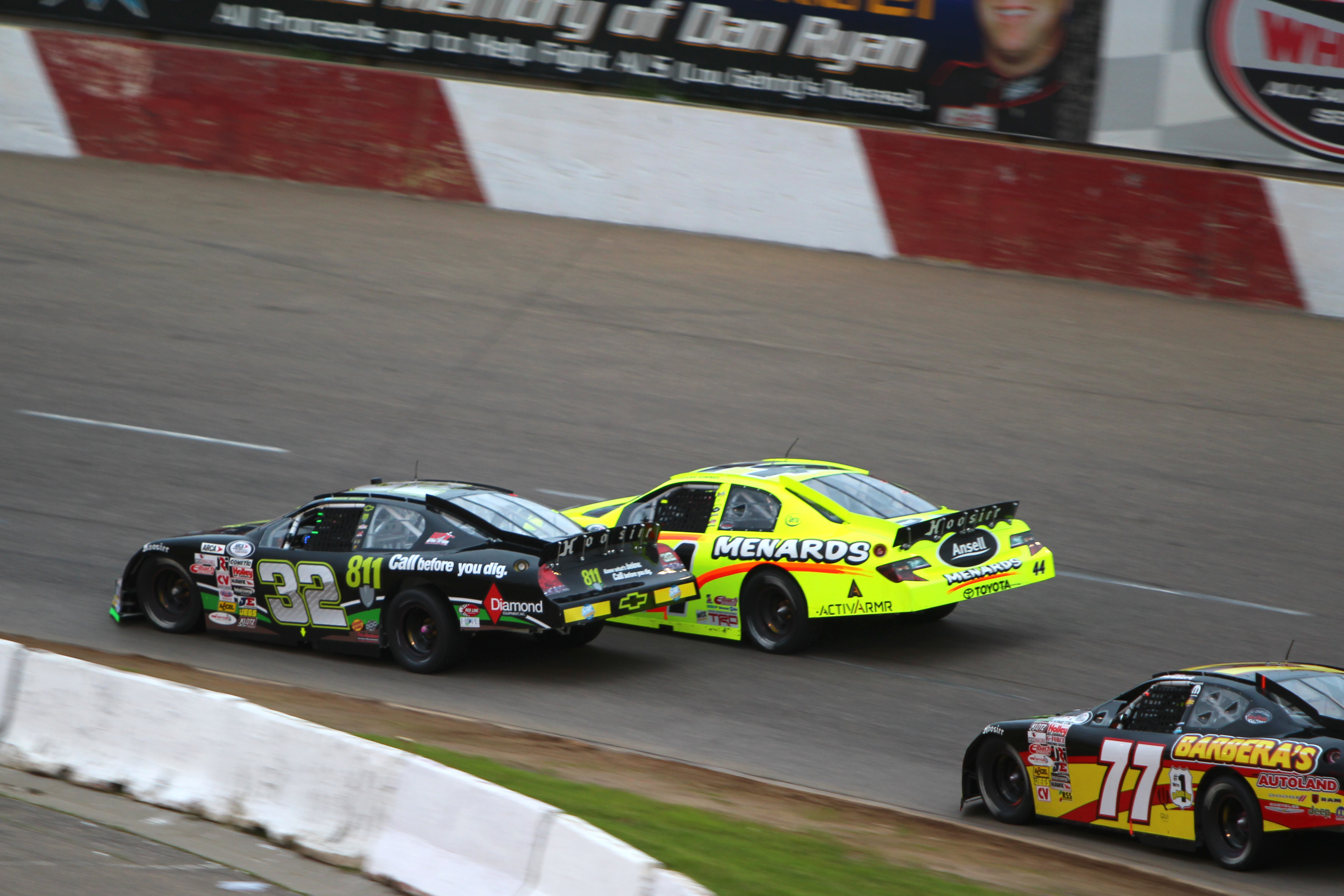 ARCA drivers racing at Elko Speedway. #32 Mason Mingus battles Frank Kimmel during the Akona 250.